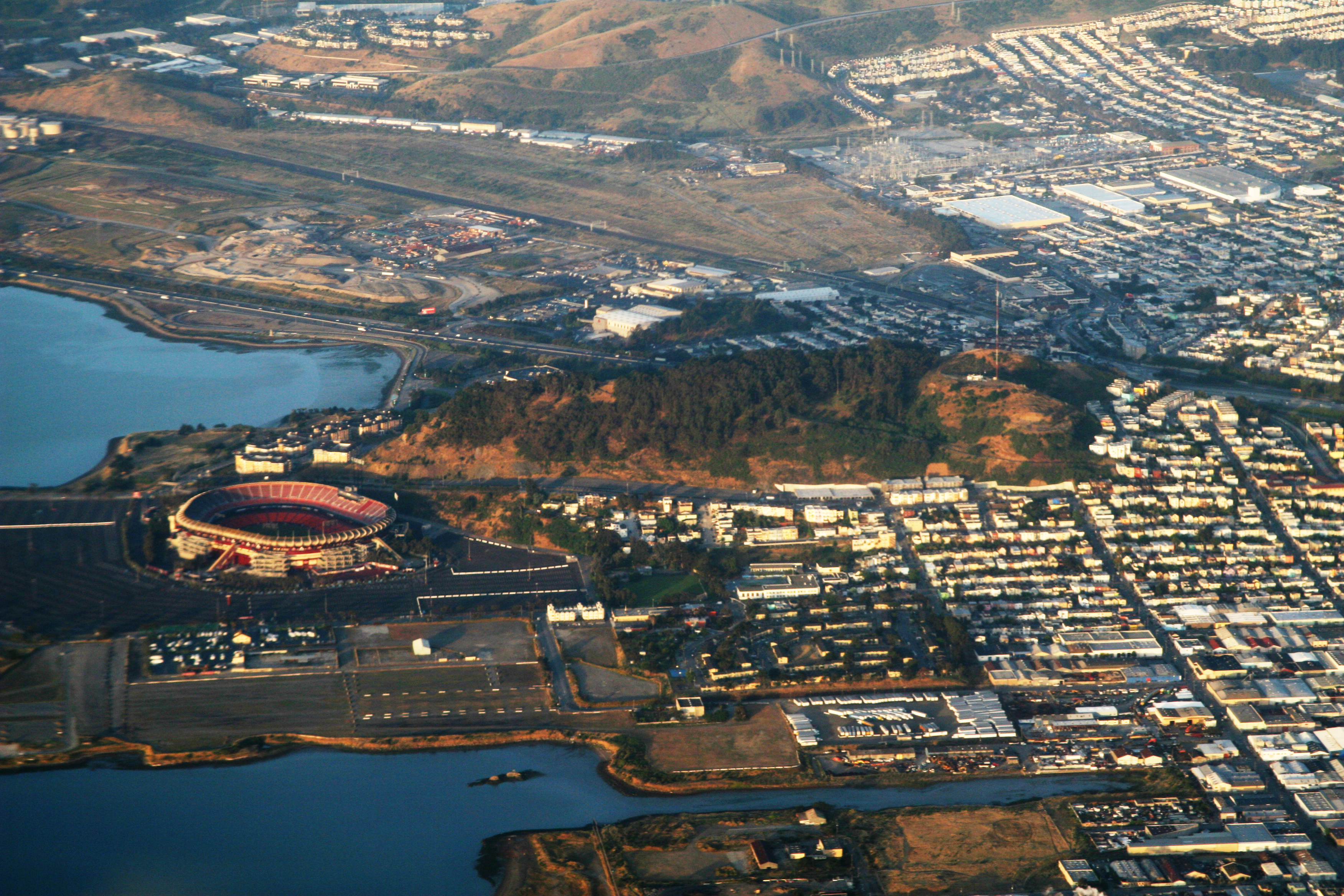 Candlestick Park, Hill and Point. the old railroad yard is in the background.